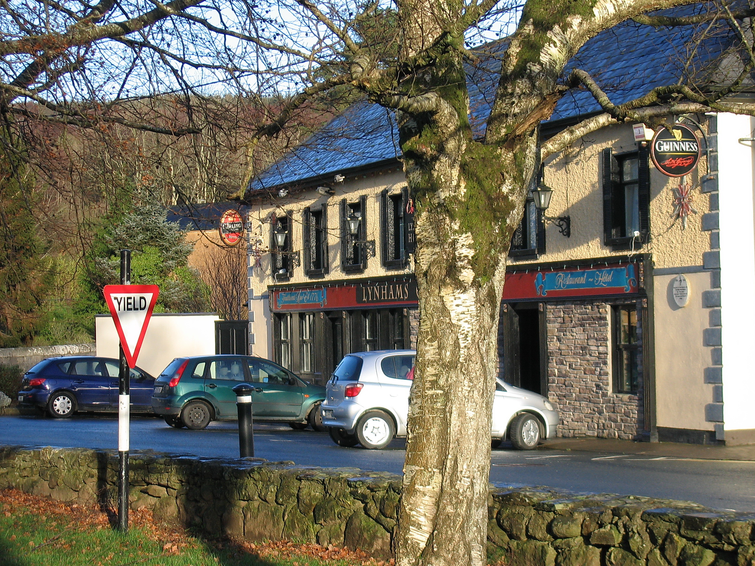 Pub in Laragh Village, County Wicklow, Ireland